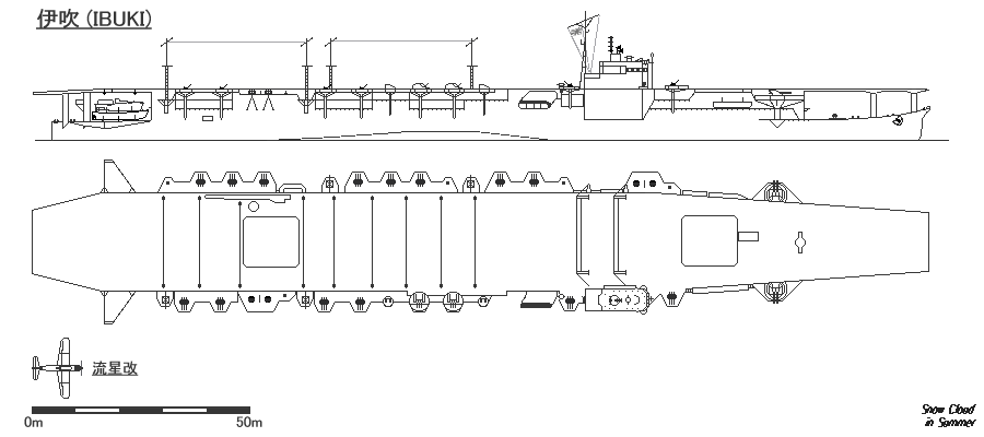 Figure of Japanese aircraft carrier IBUKI, not completed ship and it is rendering.